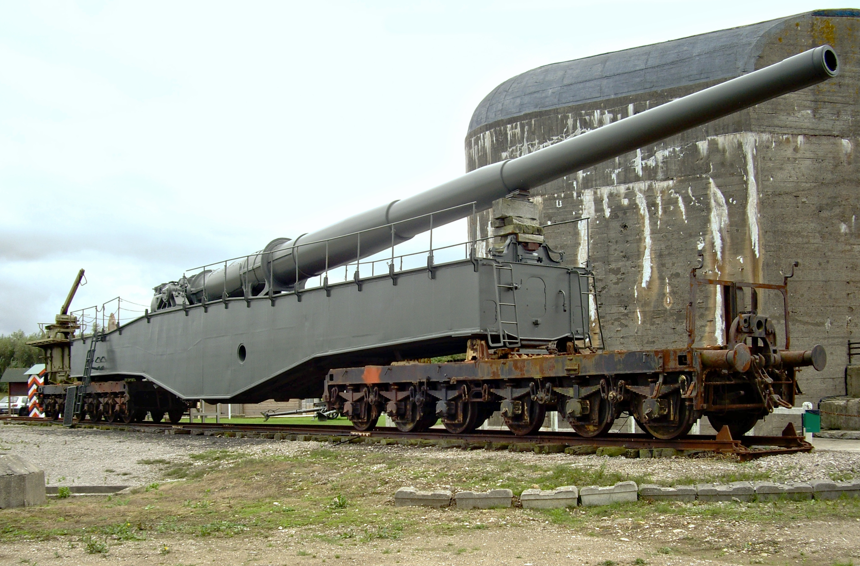 K5 gun displayed at the Battery Todt, Audinghen